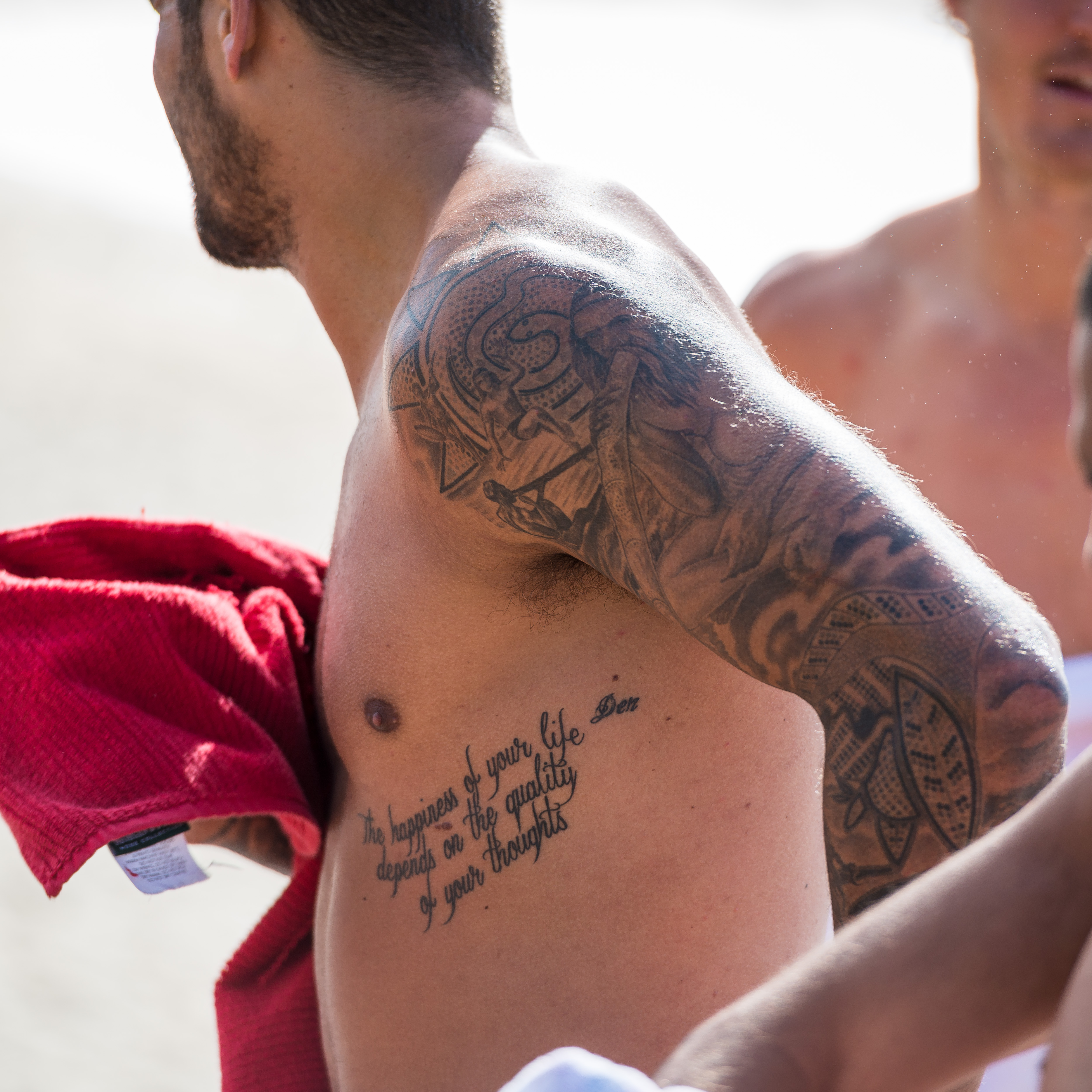 Sydney Swans Lance Franklin Tatoos